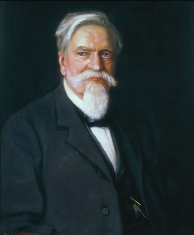 Simon Bolivar Buckner (1823–1914), the 30th Governor of the U.S. state of Kentucky